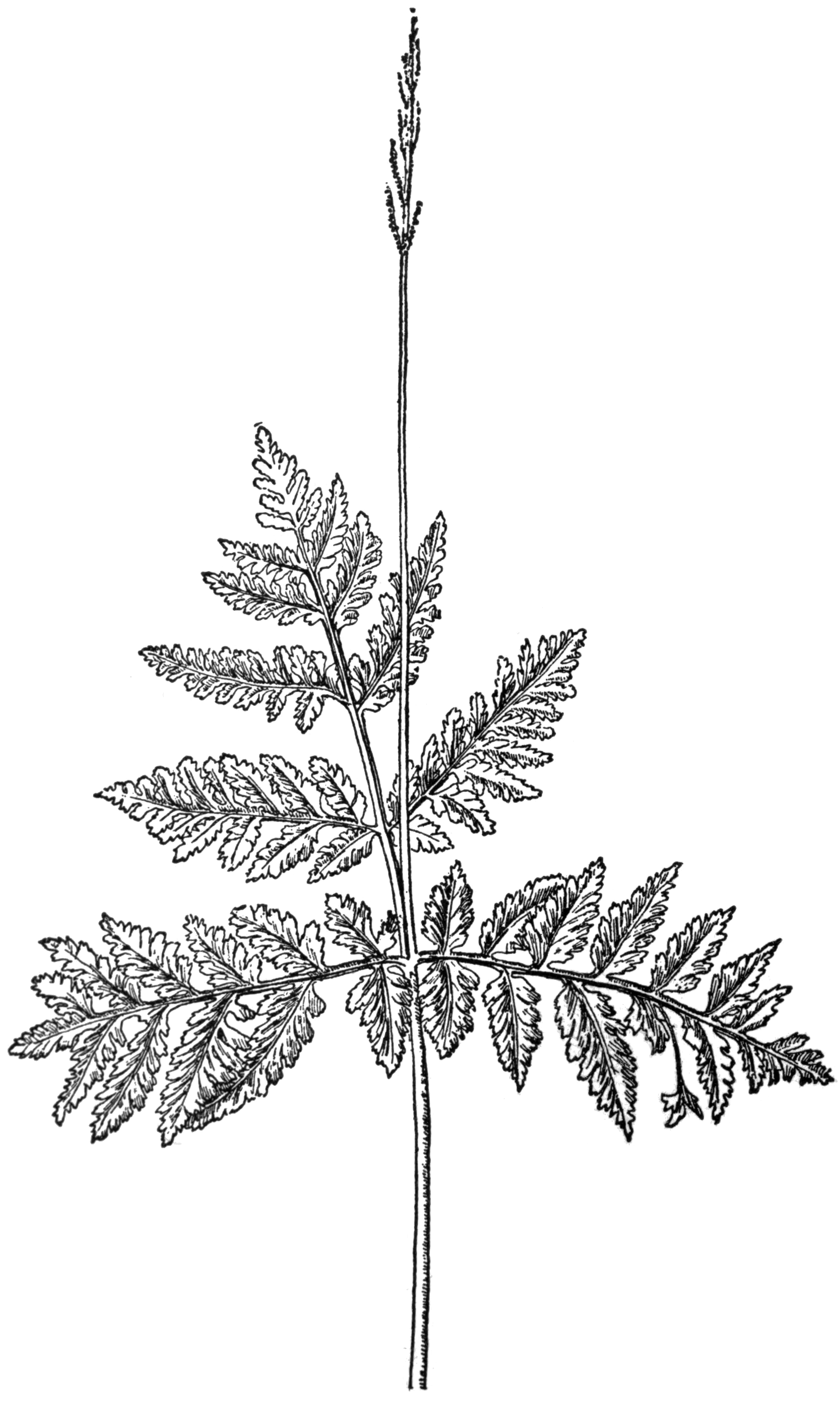 Illustration Botrychium virginianum from Our Ferns in their Haunts: A Guide to all the Native Species by Willard Nelson Clute, 1901. Illustrated By William Walworth Stilson